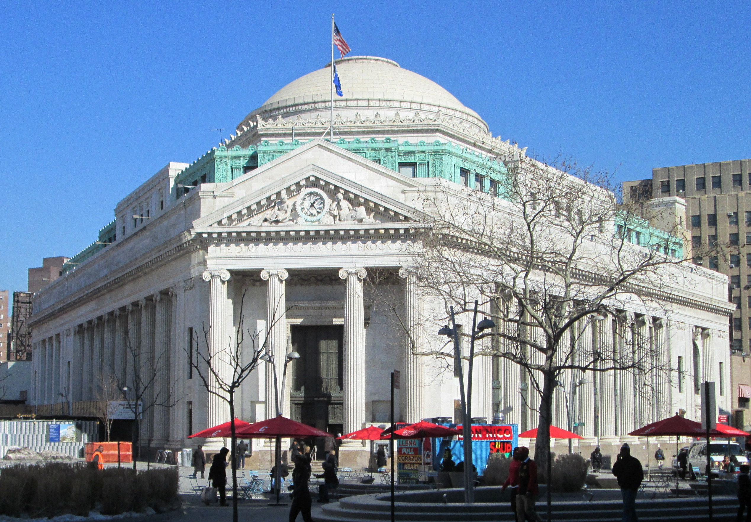 The Dime Savings Bank of Brooklyn building at 9 Dekalb Avenue at Fleet Street in the Civic Center area of Brooklyn, New York City was built in 1906-08 and was designed by Mowbray & Uffinger in the Classical Revival style.. It was significantly enlarged by Halsey, McCormack & Helmer in 1931-32. The interior of the building is "remarkable" (AIA Guide) and features large gilded Mercury-head dimes and twelve red marble columns supporting the rotunda; these were added in the 1931-32 expansion. (Sources: Guide to NYC Landmarks (4th ed.) and AIA Guide to NYC (5th ed.)) The Dime Savings Bank of Brooklyn was later renamed to be the Dime Savings Bank of New York.